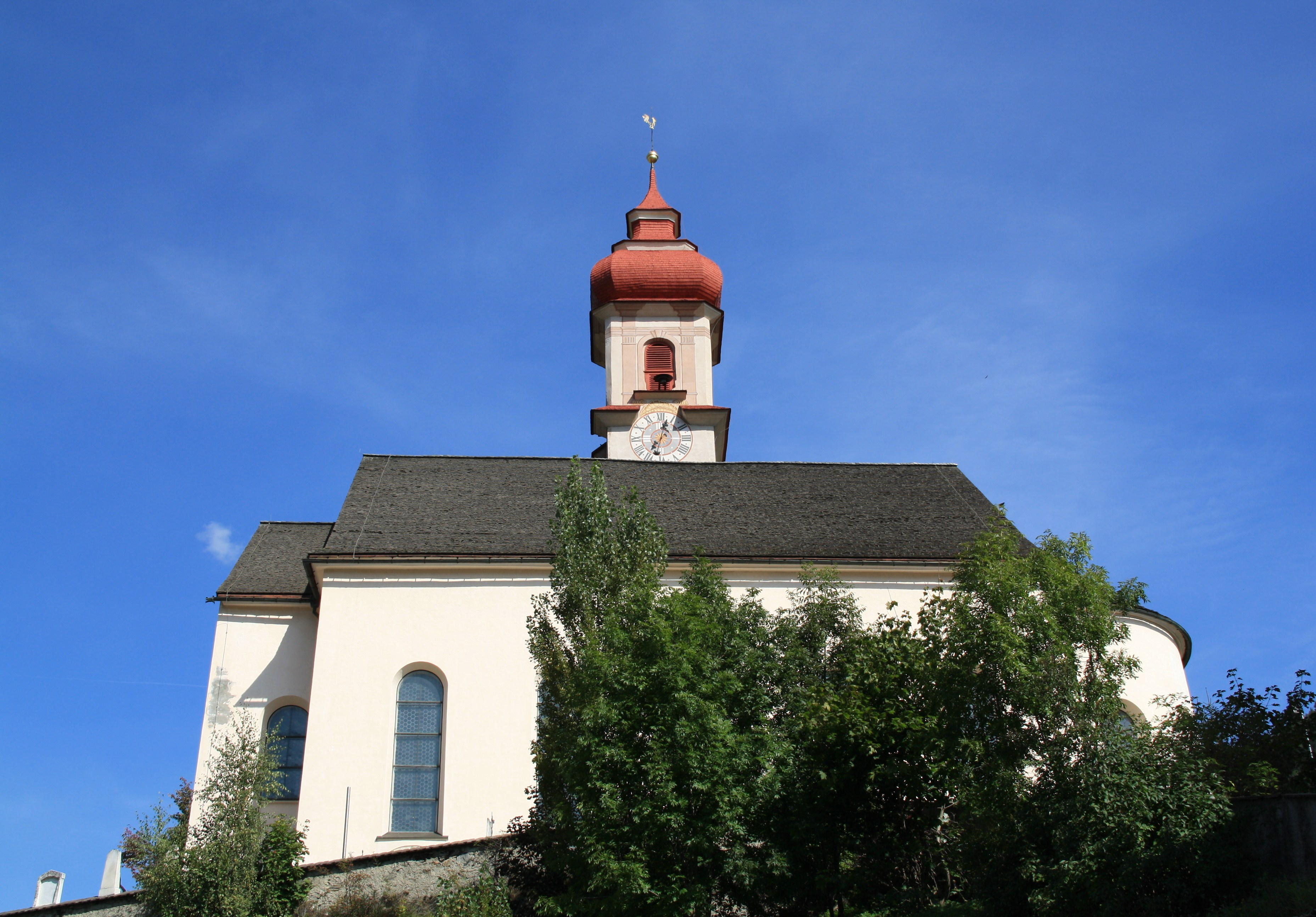 Italy, South Tyrol, Gossensaß. The church is dedicated to the Immaculate Conception and was built in 1750 on the same place of the old gothic church erected in 1471 and dedicated to Saint George of which remains the bell tower. The church was built on design of Franz de Paula Penz in baroque, it is possible a former project by Johann G. D. Grasmair. The church was consecrated on July 4 and 5, 1754 by bishop Leopold von Spaur. The front shows the portal of the old church and the three niches in which are placed the statues of the Immaculate Conception, Joachim and Saint Anne. The nave has a cross shape with two arms forming four lateral chapels. The high altar is rich in golden shades and at the centre of the throne is placed the statute of the Immaculate with the child. To the left side, between the two lateral chapels, is the baroque pulpit of 1777 positioned in a central site. To the right side between the two lateral chapels is a Crucifix by Bartlmä Kleinhans. The first right lateral altar is dedicated to Our Lady of Sorrows encircled by the statues of Mary Magdalene, Saint Elisabeth and Saint James works of 1750. The second right lateral altar is dedicated to Francis Xavier and two Bishops: Saint Ingenuinus and Saint Albuin coming from the old Saint George church. The first left lateral altar is the Flagellation of Christ at the column and the Saints Peter and John on each side. To the second left lateral altar is Saint Leonard, by side are the statues of Saint Sylvester, Saint Gregory and Saint Barbara coming from the old church. The eastern dome fresco was painted by Matthäus Günther and represents the Christ crowning Mary and Saint George throwing the pierced dragon downwards.